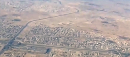 Aerial view of Al Daayen municipality and Umm Salal Mohammed, Qatar.